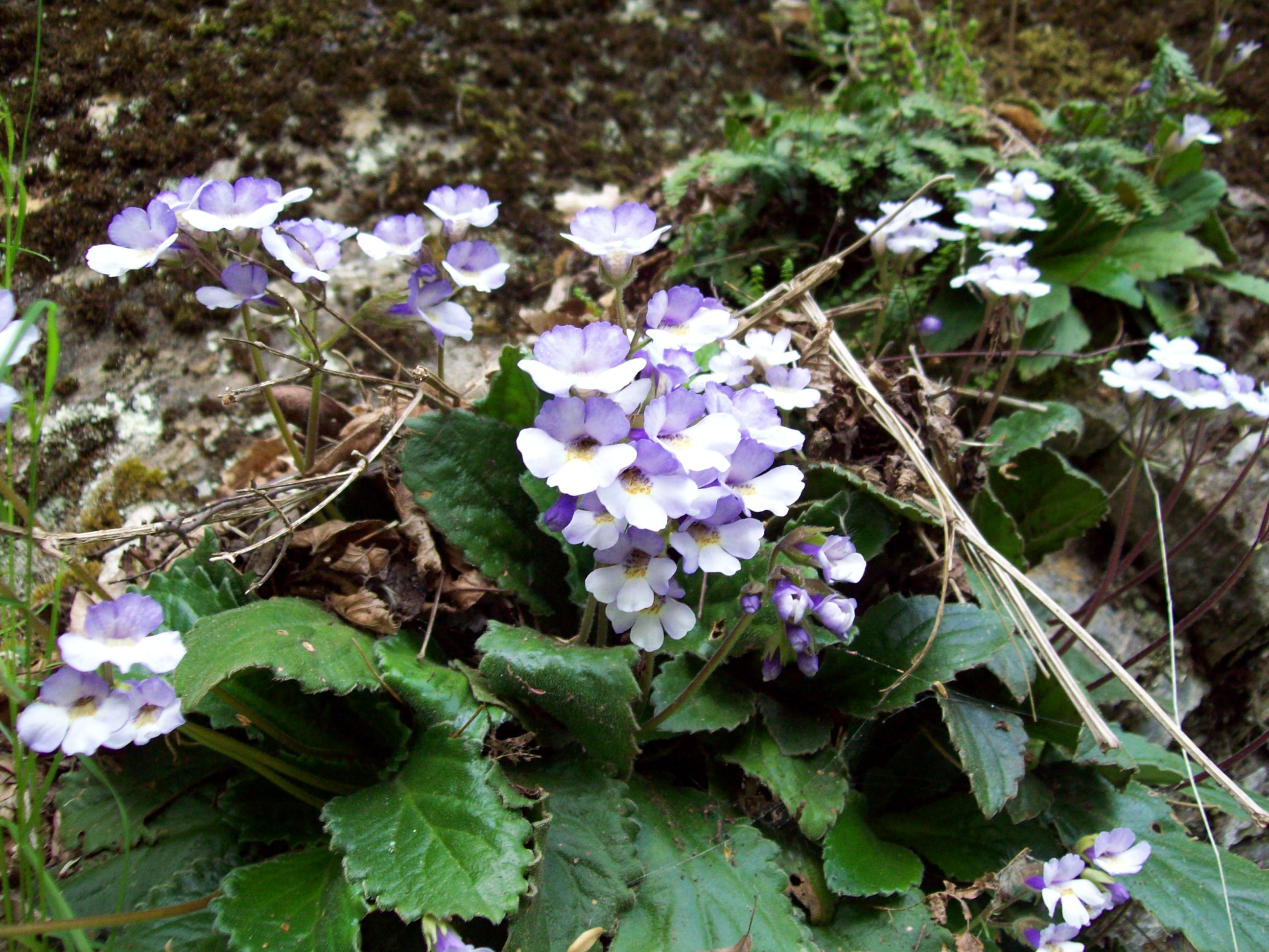 Haberlea rhodopensis, Bulgaria